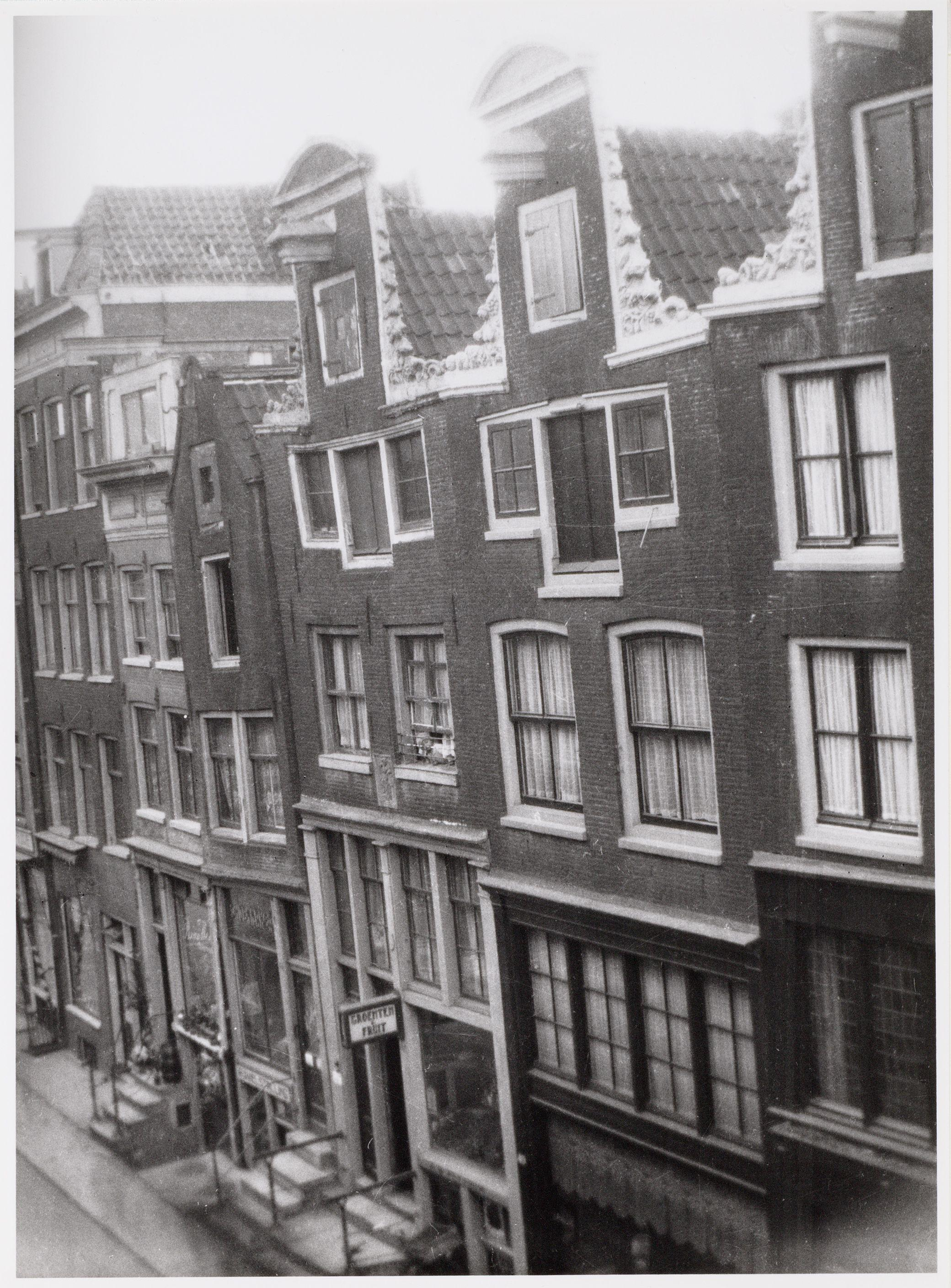 From left to right: Nieuwe Spiegelstraat 50 (partially), 48, 46, 44, 42, 40, and 38 (partially). c 1900. Photo. Amsterdam, City Archives (inv.nr. 010003010494).